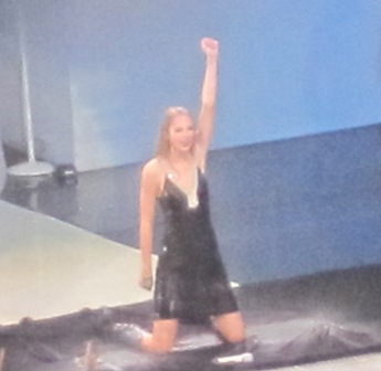 Taylor Swift performs Should've Said No at the Fearless Tour